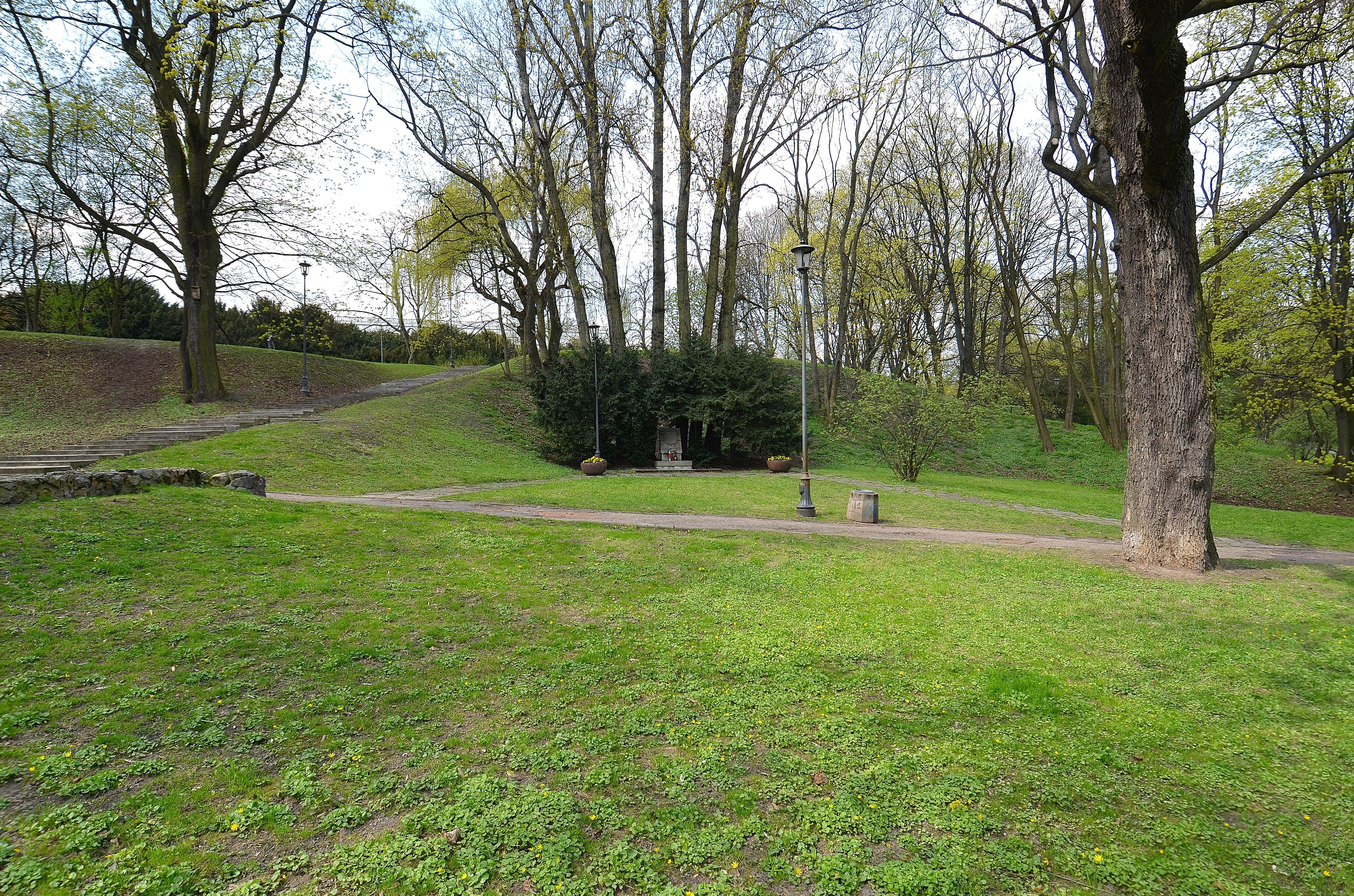 Edward Rydz-Śmigły Park in Warsaw, place of German executions in 1939-1940